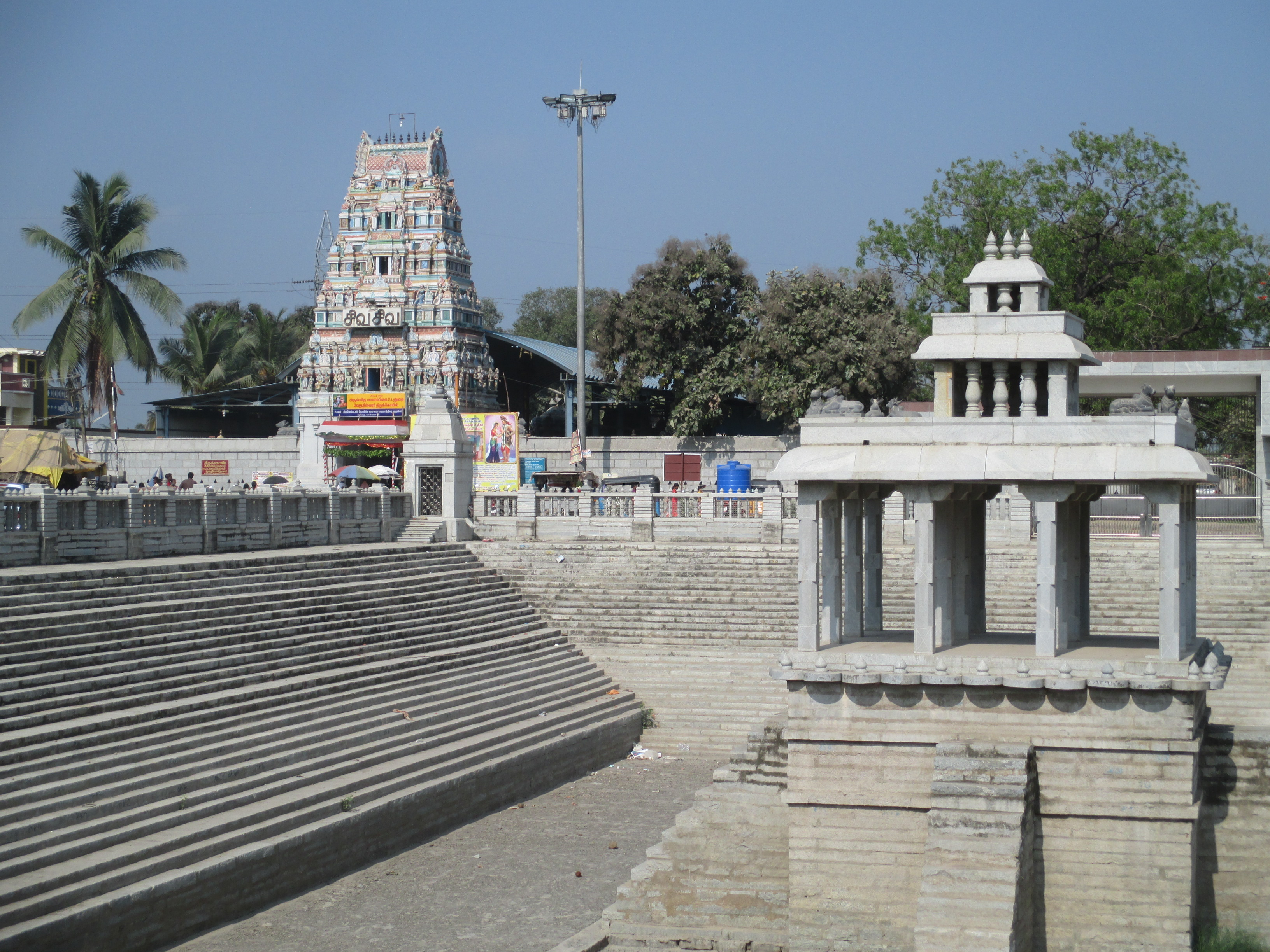 Vedapureeswar temple, Thiruverkadu